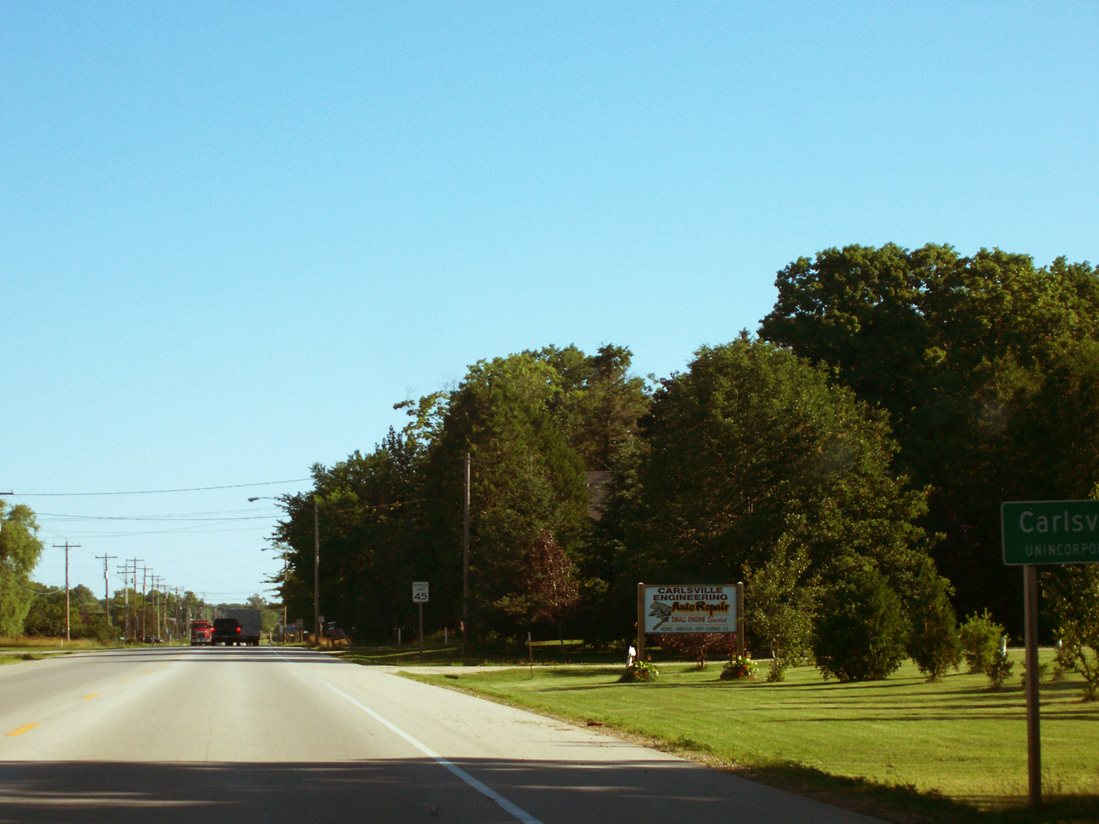 Looking north at the DOT welcome sign for the unincorporated community Carlsville, Wisconsin on Wisconsin Highway 57.